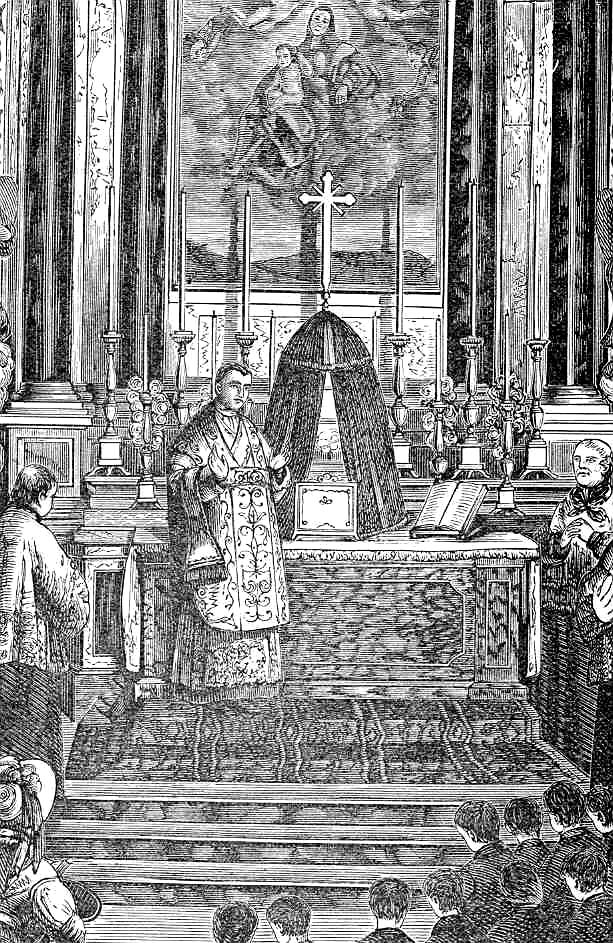 Giovanni Maria Mastai Ferretti (then Pius IX) as a young priest celebrating his first mass in 1819.